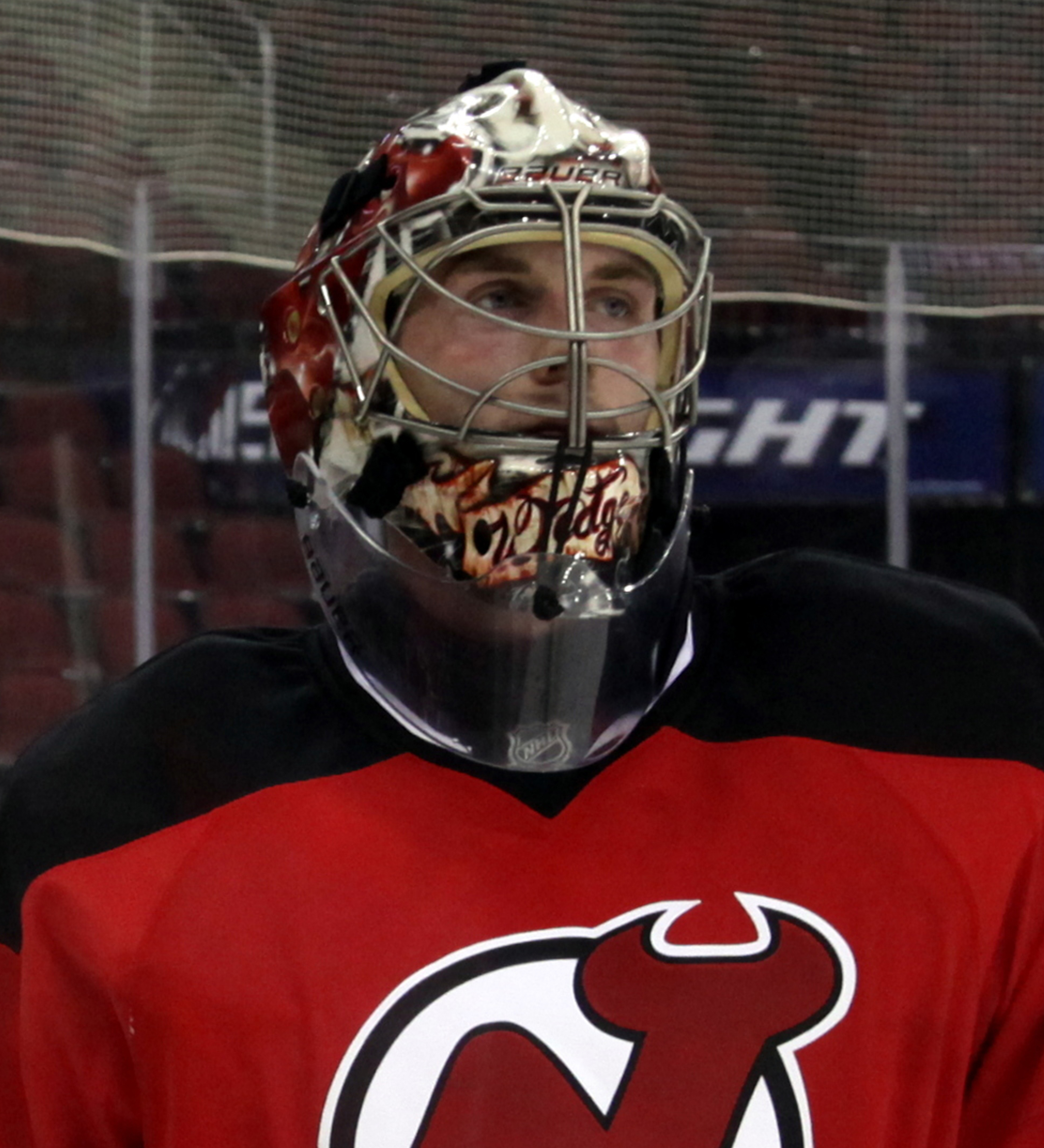 Wedgewood at training camp in September 2015.